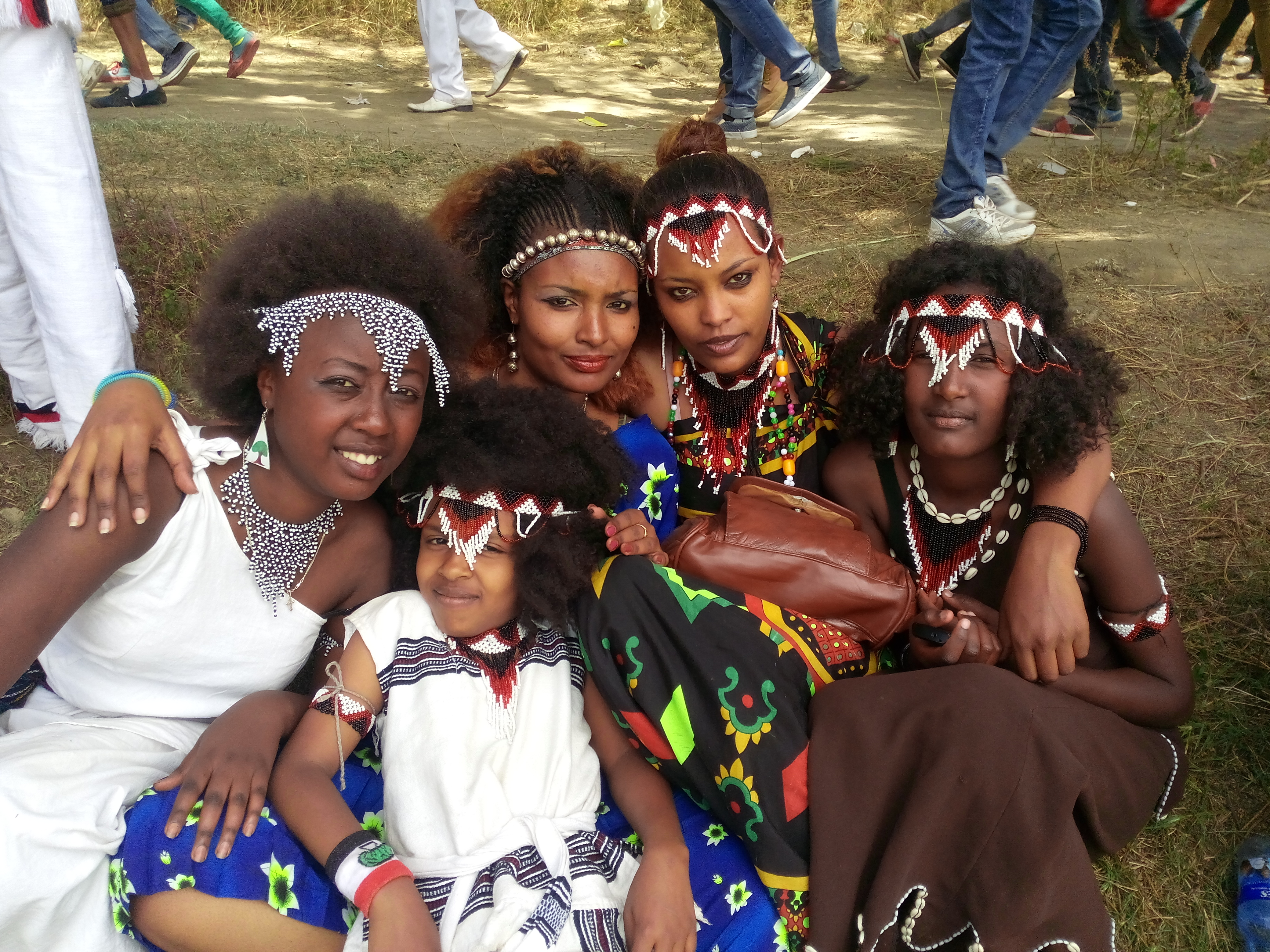 This photo represents the varieties of dressing and hair style of the Oromo culture. the kid sitting in front of the group dressed Gujo Oromo cloths. the four girls at the back from left to right, dressed Harar, Kamise, Borena and Showa styles and all are Oromo style. This is an image of Cultural Fashion or Adornment from Ethiopia